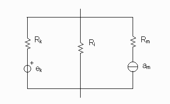 Millman's theorem, example